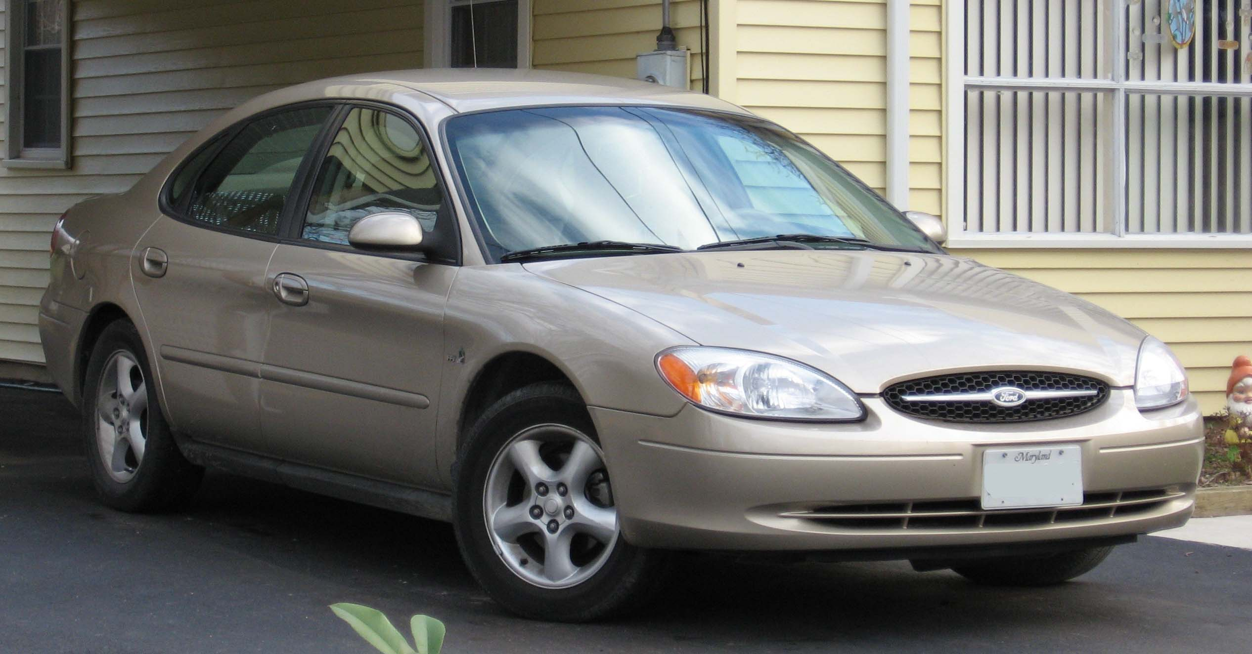 2000-2003 Ford Taurus photographed in USA.